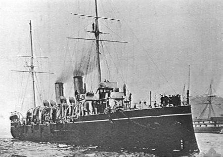 AWM caption : "UNITED KINGDOM. C.1899. STARBOARD BOW VIEW OF THE THIRD CLASS PROTECTED CRUISER HMS PEGASUS."